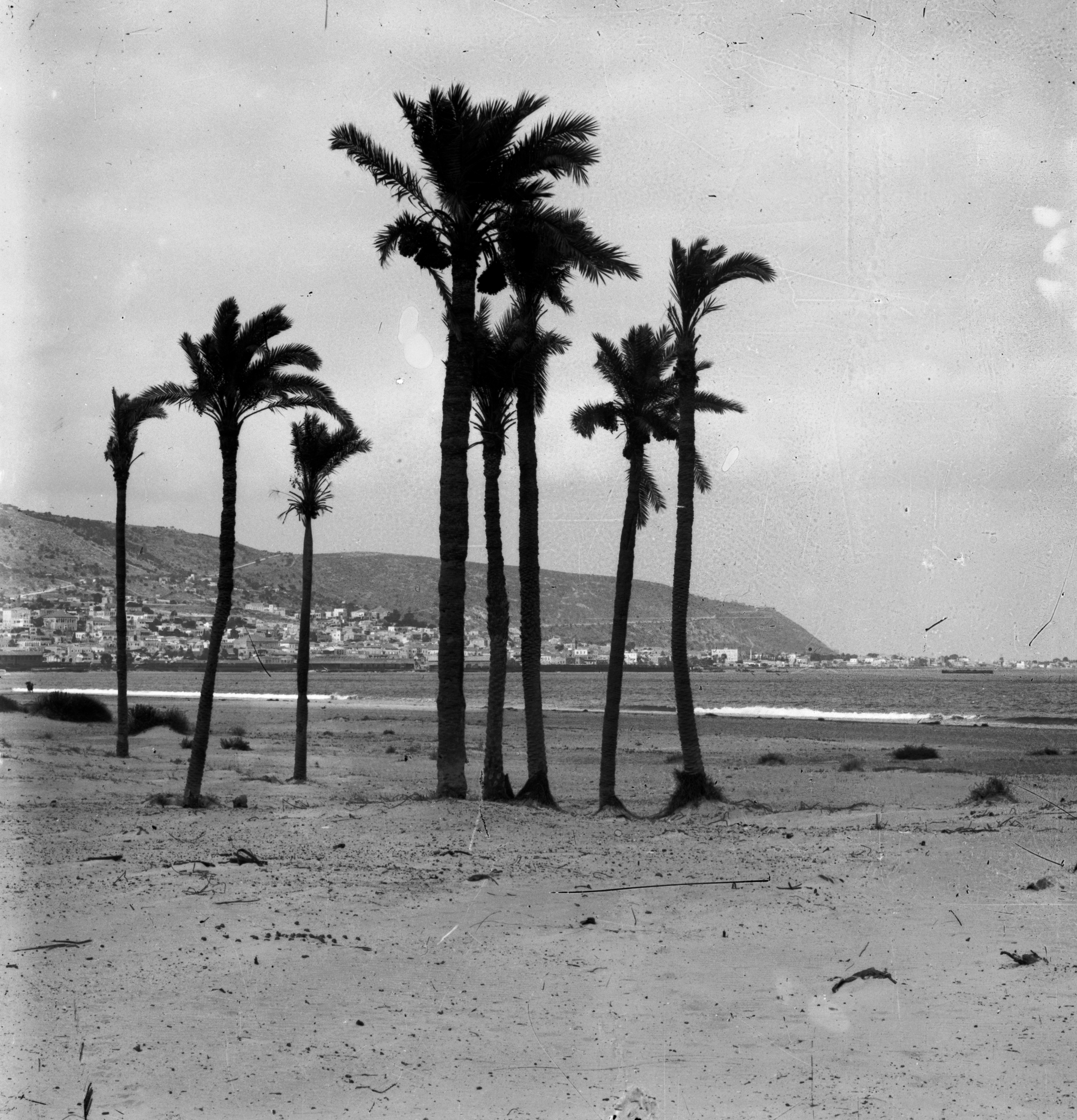 Zvulun Valley Coast, Israel. Along the sea coast. Haifa and Mt. Carmel.